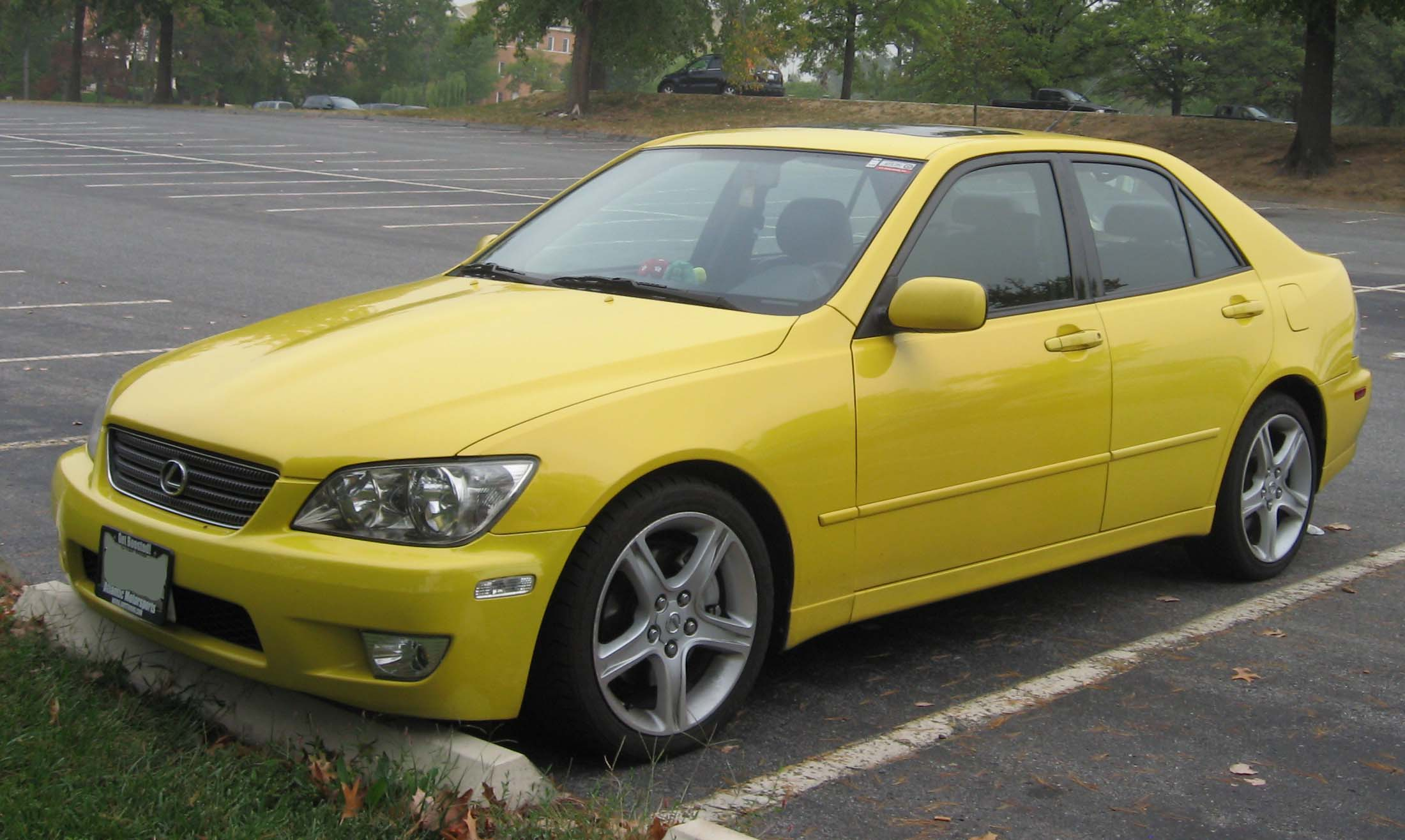 Lexus IS 300 photographed in College Park, Maryland,USA.